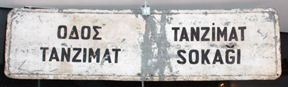 A bilingual Tanzimat street sign